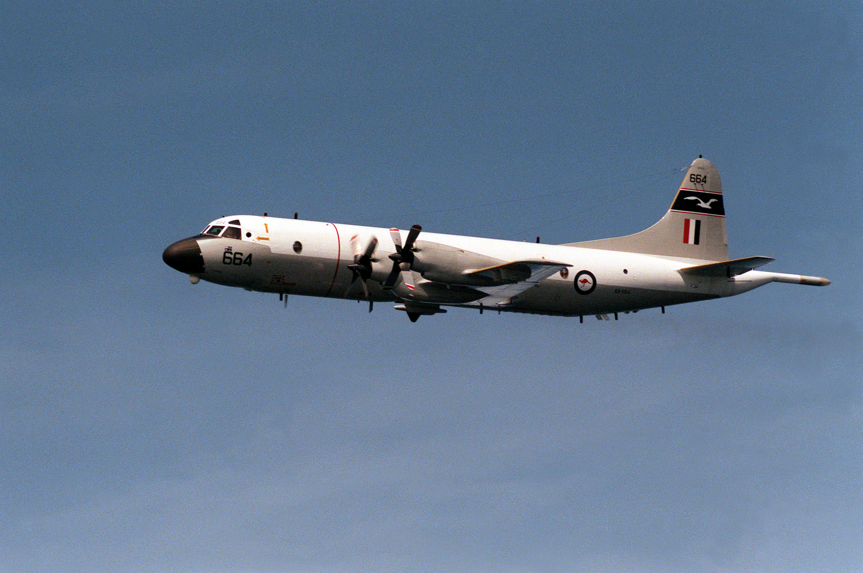 A Lockheed P-3W Orion aircraft of No 11 Squadron, No 92 Wing, Royal Australian Air Force (RAAF), flying over Butterworth, Malaysia on 1 Jul 1990. This P-3C was delivered to the RAAF on 30 Apr 1986, Lockheed construction number 5793, U.S. Navy Bureau Number 162664, RAAF serial A9-664. the P-3W was a P-3C Update II.5 and the RAAF used this designation to distinguish between the 10 originally bought P-3Cs and the second Update II.5-batch. Starting in 2002 all of Australia's P-3C/W were modified to the "AP-3C" (Australian P-3C) standard. The Orion is the workhorse of No 92 Wing, located at RAAF Base Edinburgh, near Adelaide, who are responsible for conducting long-range surveillance missions within Australia's Exclusive Economic Zone and throughout the Indian and Pacific Oceans.